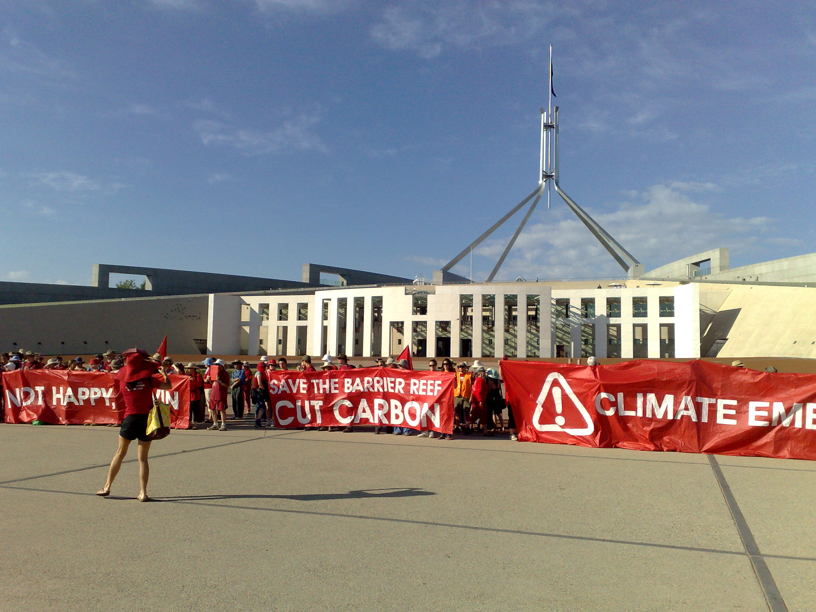 500 participants from the Climate Action Summit, representing 140 climate action groups Australia wide at Parliament House expressing dissatisfaction with the Rudd Government climate change policies including the Carbon Pollution Reduction Scheme